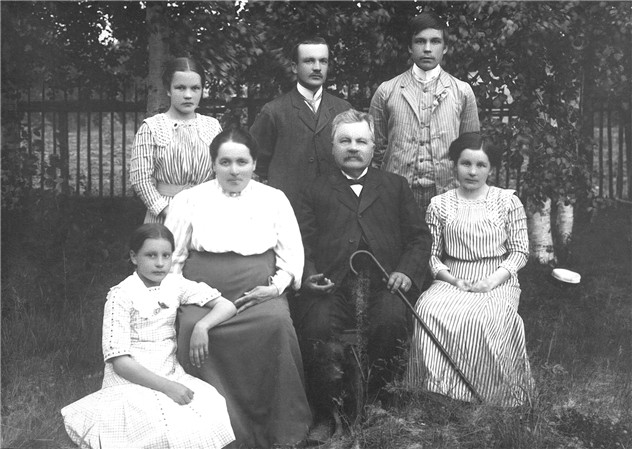 The picture is taken from the family of Kaarlo Vesala in Finland.